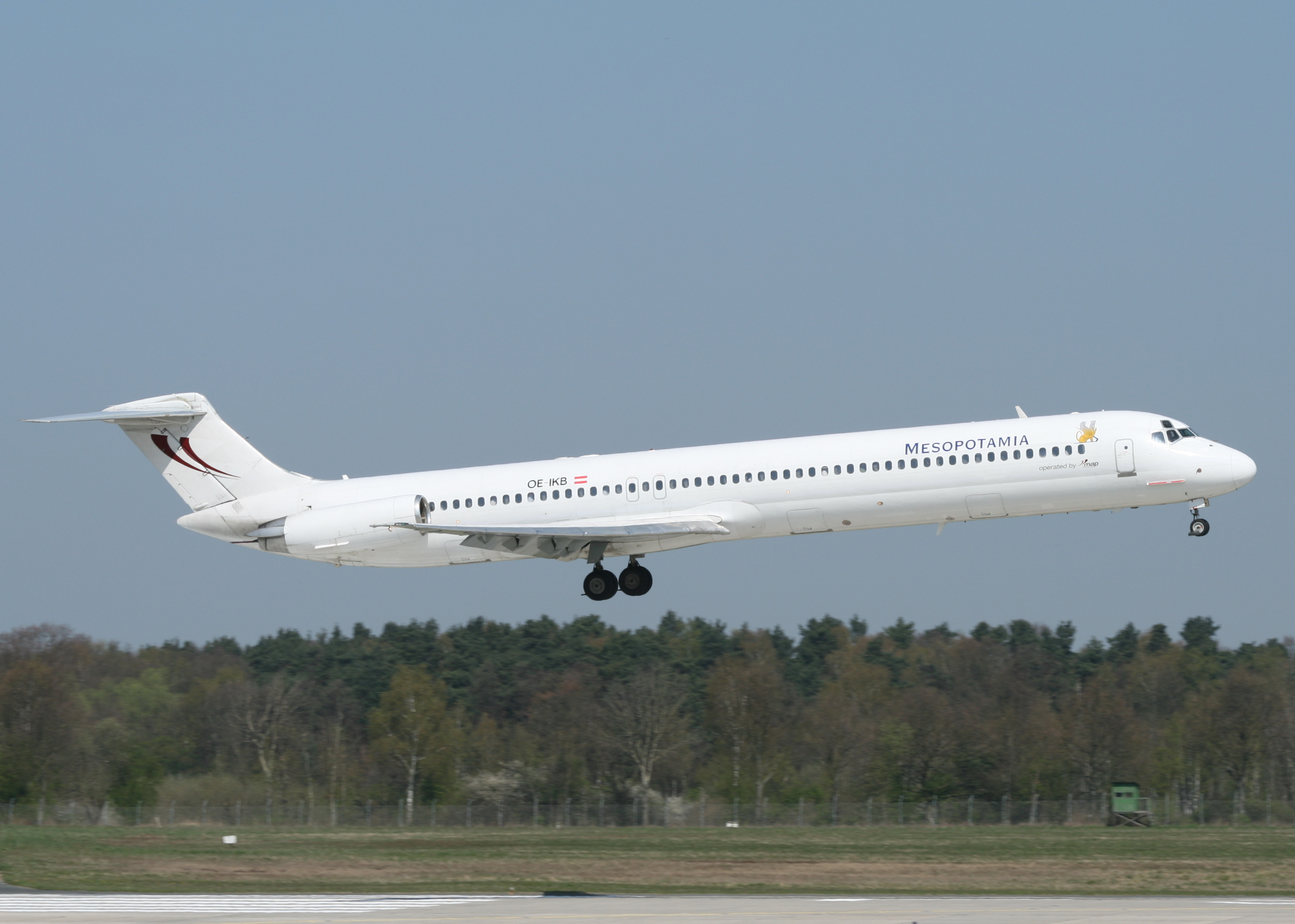 Mesopotamia Air McDonnell Douglas MD-83 (OE-IKB) landing at Hannover Airport